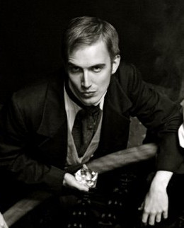 Crop of David Reed from ThreeWeeks photo-shoot for Aeneas Faversham Forever.